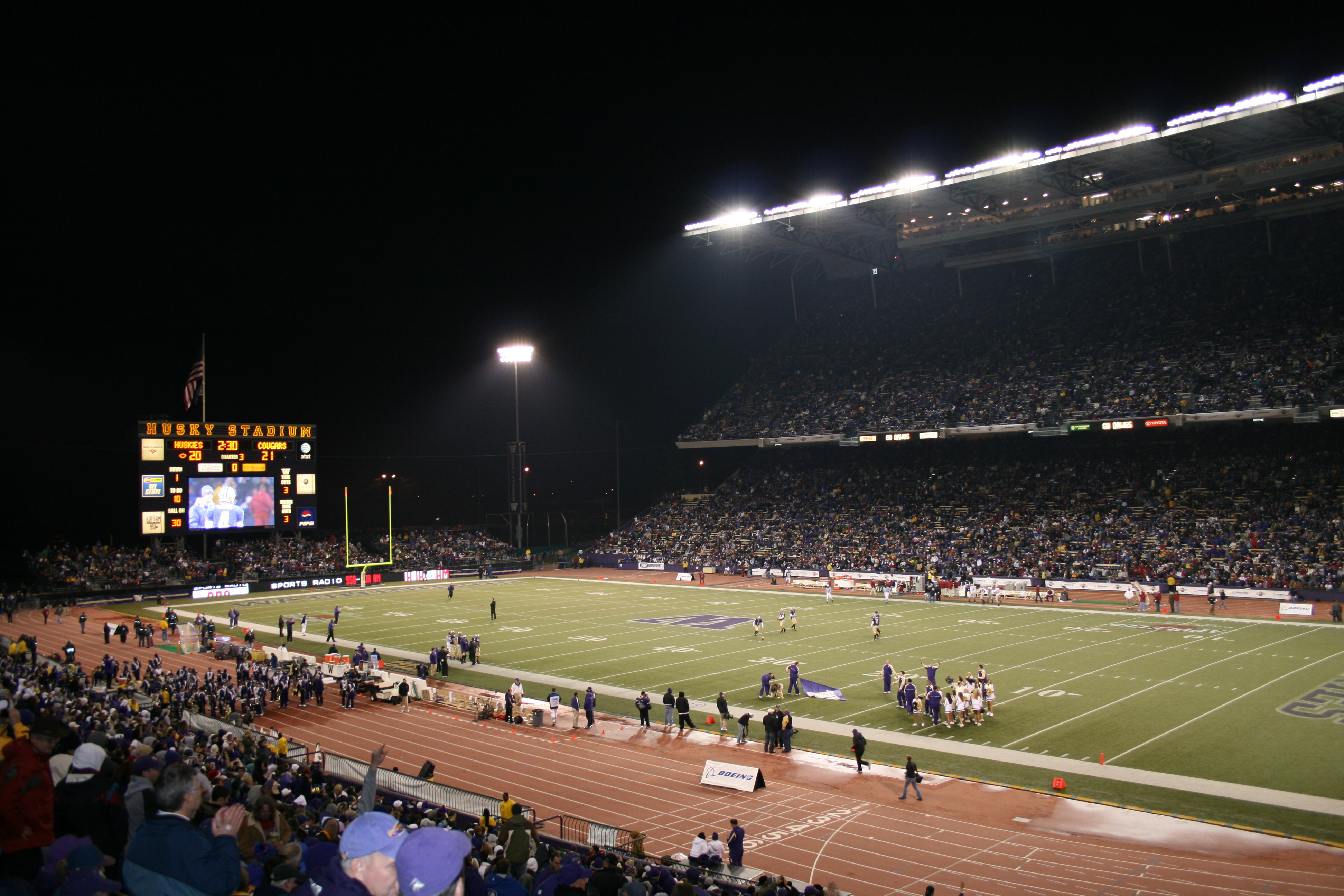 Apple Cup at halftime, Husky Stadium, Seattle, Washington, November 24, 2007